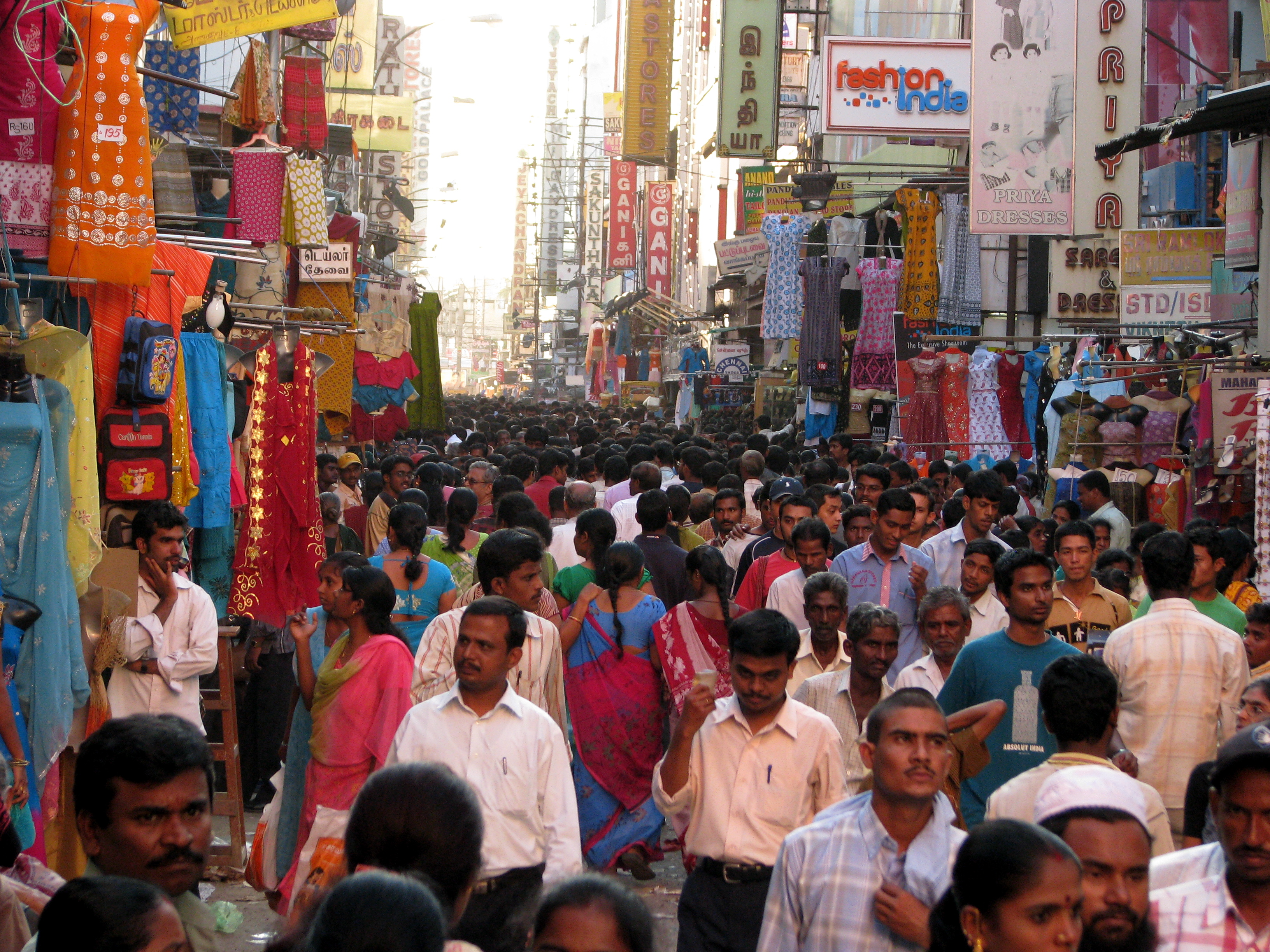 The T. Nagar market area is Chennai's busiest. As well as being the main hub for silk saris and gold in the region, one can also get all jumbled in most anything from housewares and furniture to plastic do-dads and vegetables. This alley is certainly the busiest and this packed scene is normal throughout most days.